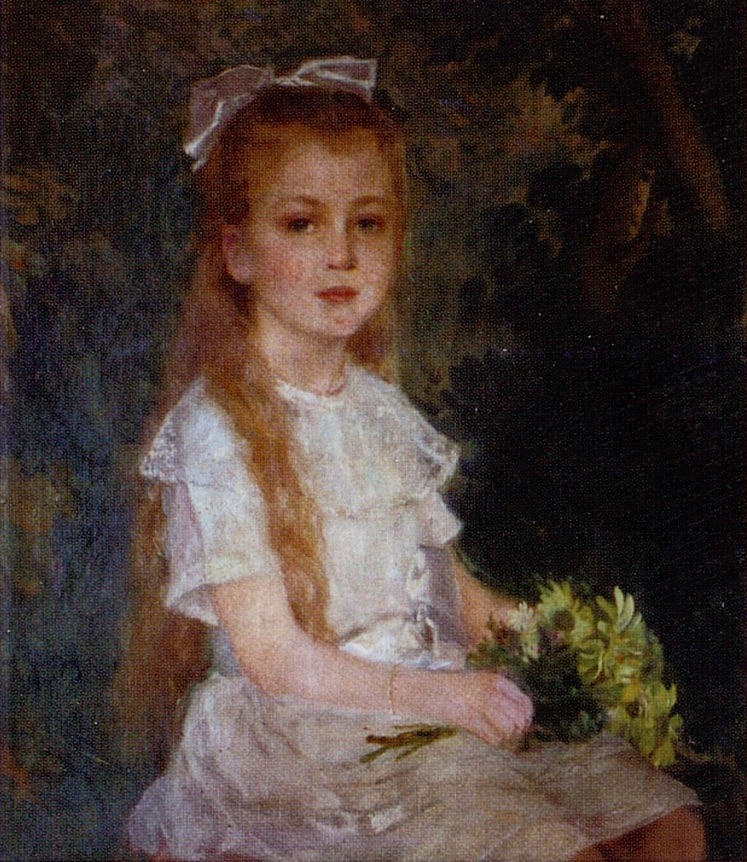 Helvig Paus (1909–1976), Vienna, painted in 1915 by Eilif Peterssen, aged seven. Helvig Paus was the daughter of the Norwegian Consul in Vienna Thorleif Paus and the sister of General Ole Paus.